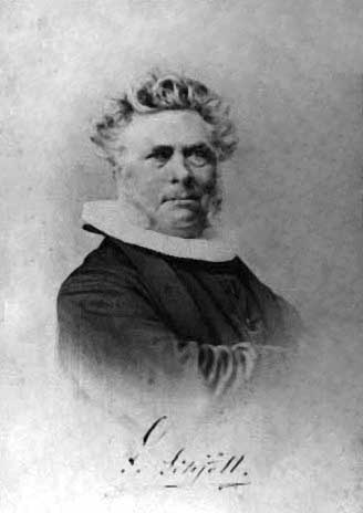 Peter Ulrik Frederik Schjøtt (1802-1873), Danish priest and politician, MP